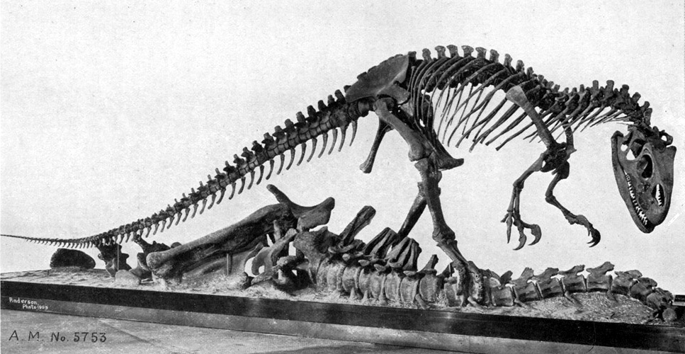 Photograph of the skeletal mount of Allosaurus specimen AMNH 5753, from William Diller Matthew's 1915 Dinosaurs (there attributed to Henry Fairfield Osborn). This particular version is taken from the Project Gutenberg e-book.